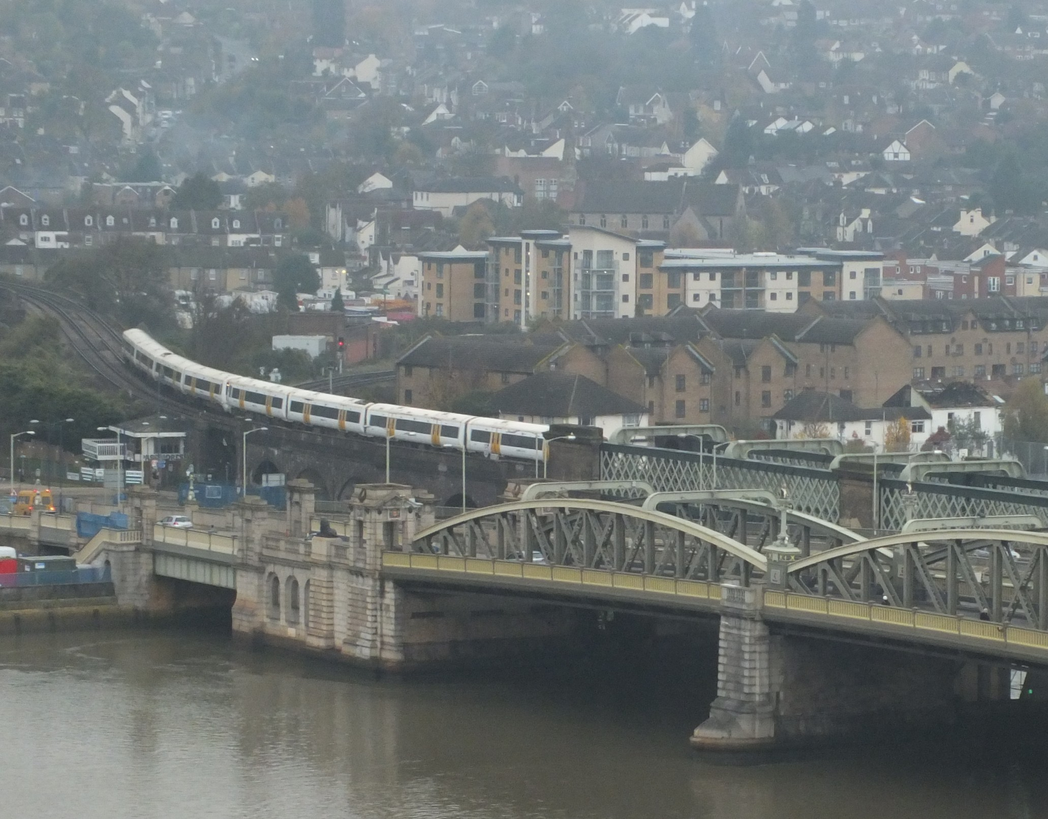 Rochester Bridge from the keep of Rochester Castle, with the rail lines around Strood railway station. The upline forks, the left taking the Victoria line on a gentle curve around Strood and the right line turns sharply into Strood station. This line carries the Javelin service to Ebbsfleet and St Pancras and the Charing Cross line. Beneath the Victoria line, the Medway Valley line leaves for Cuxton and Maidstone. Down train from Victoria.